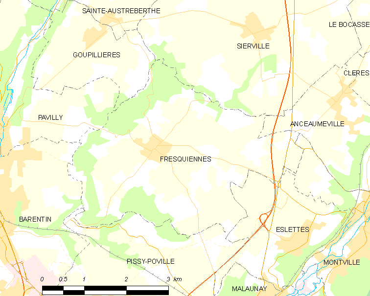 Map of French municipality Fresquiennes